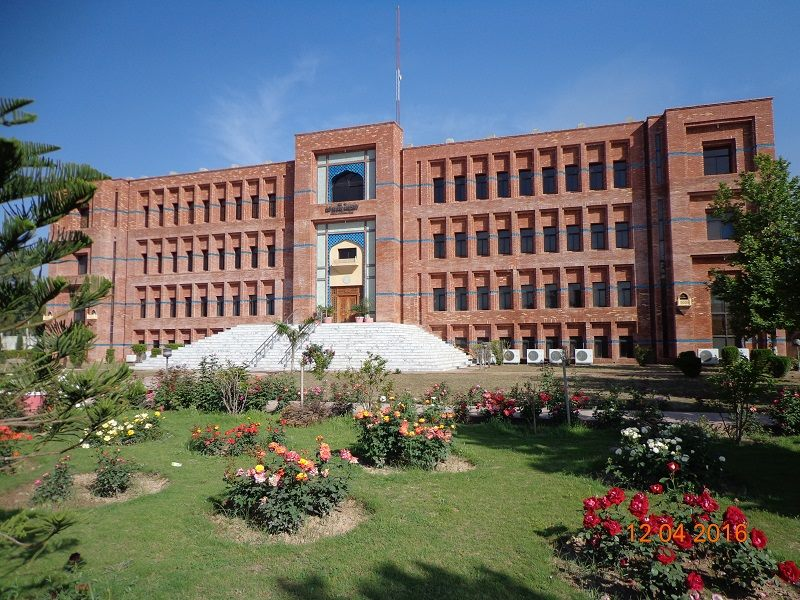 FAST-NUCES Peshawar new block